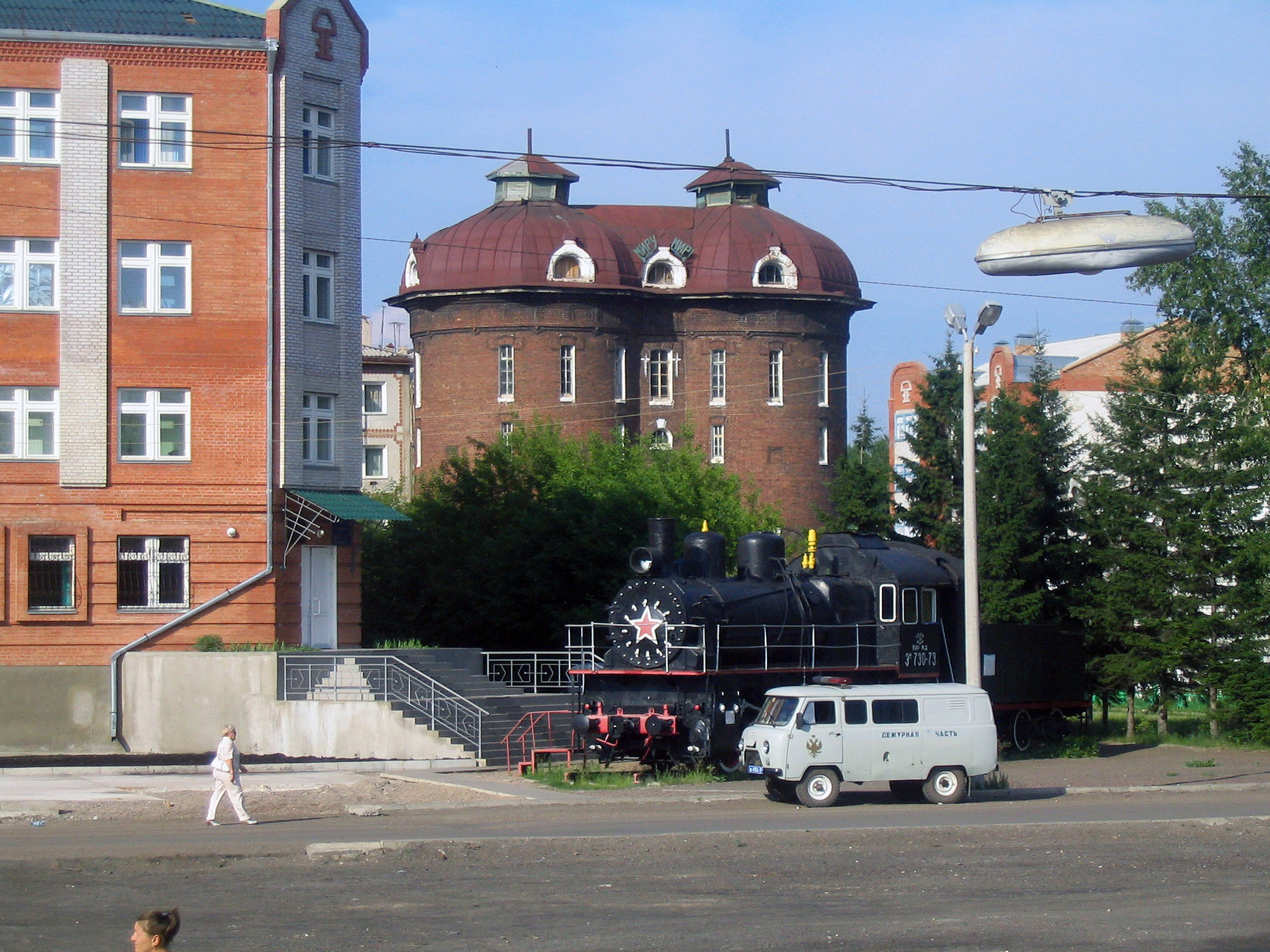 Locomotive at the Ilanskaya station in Ilansky, Russia on the trans-Siberian railway. Taken by me 7/06, released into public domain